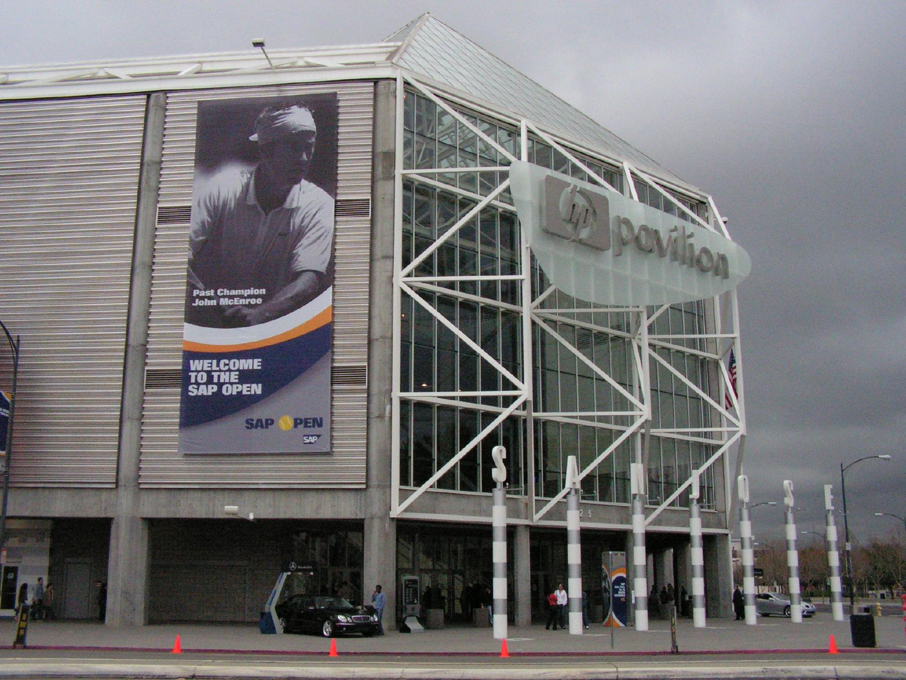 a photo of a building